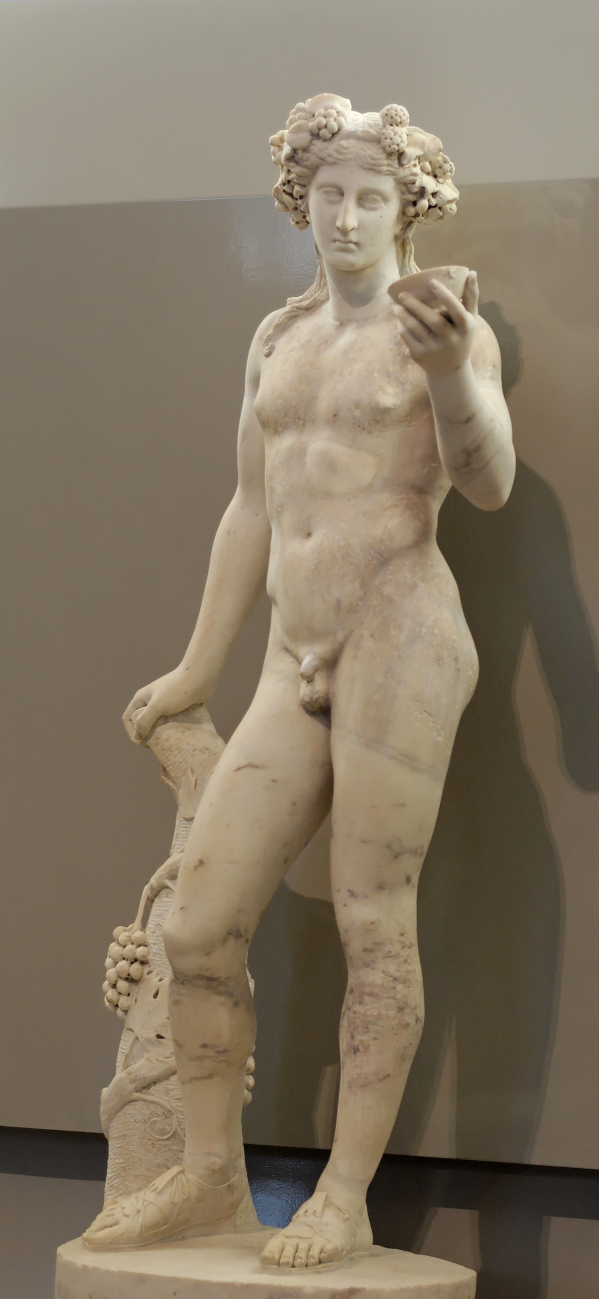 Statue of Dionysus. Marble, 2nd century CE (some restorations in the 17th century).